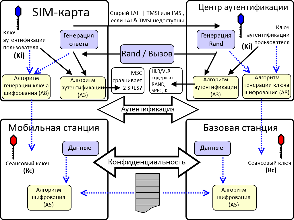 Authentication schema for GSM cipher A8.